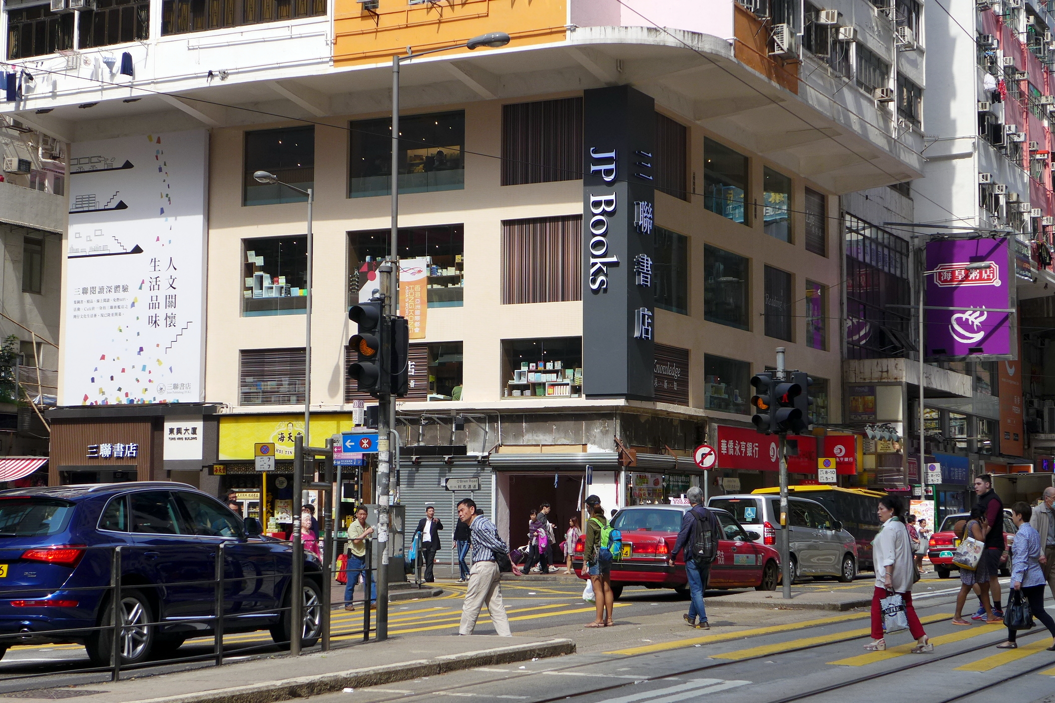 JP Books Wan Chai Store